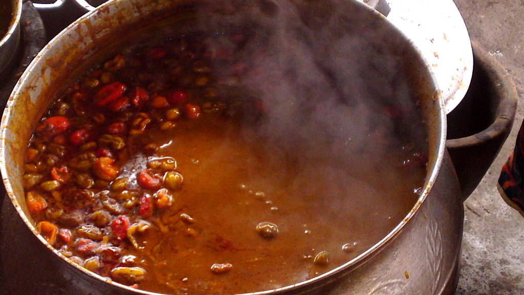 This is an image of food from Côte d'Ivoire